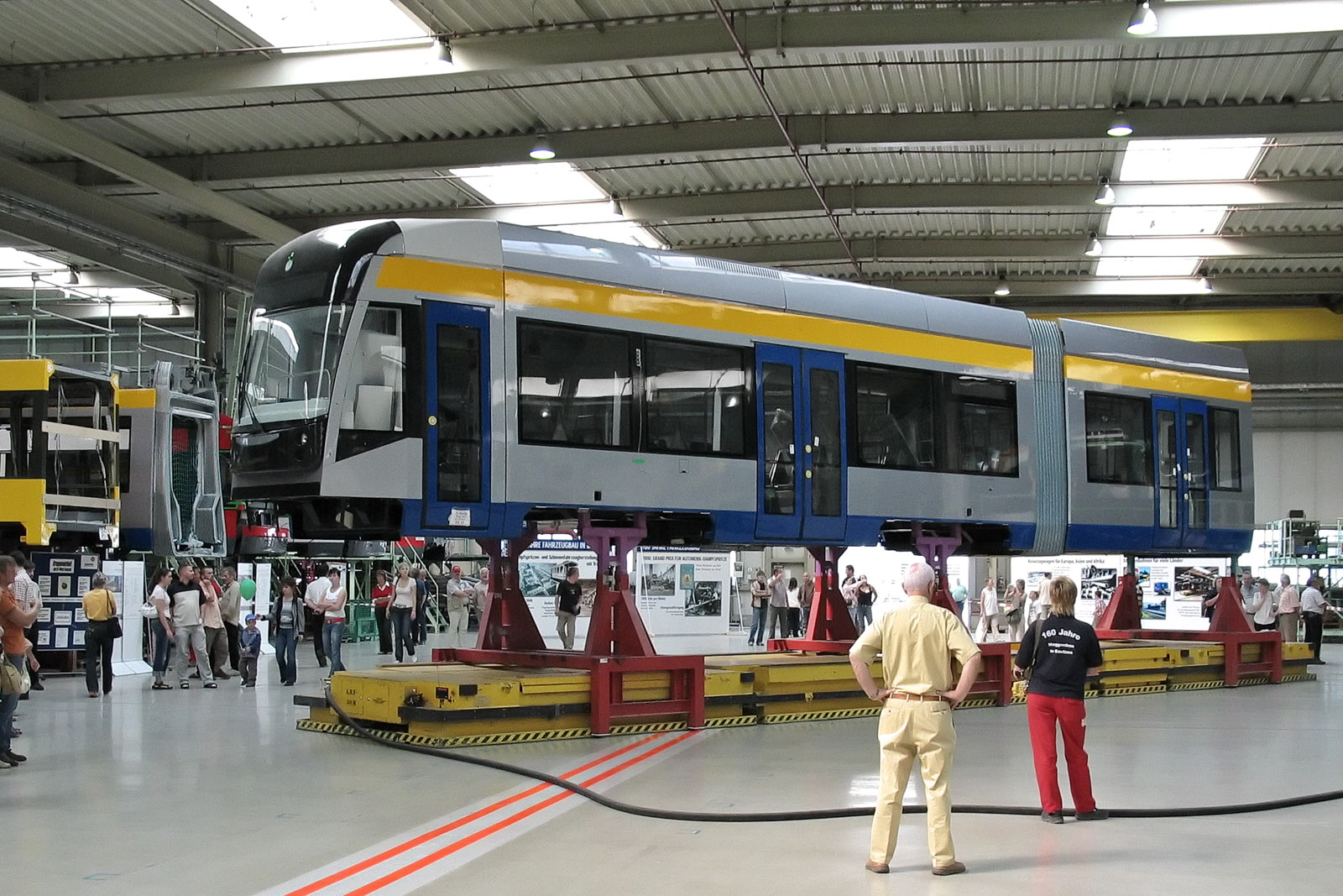 Bombardier Transportation Flexity Classic tram in the factory in Bautzen, Germany.